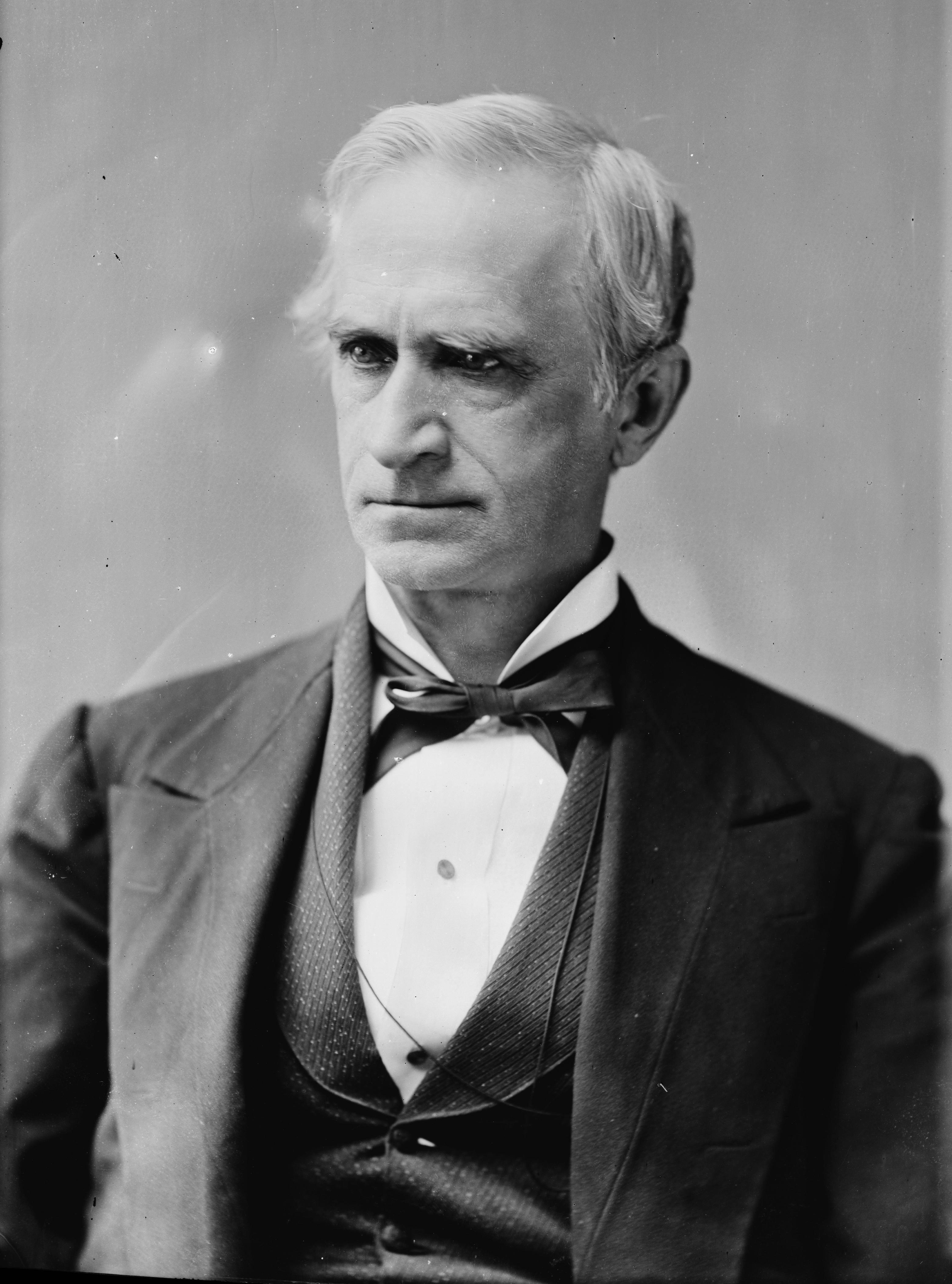 Eli M. Saulsbury. Library of Congress description: "Saulsbury, Hon. Eli of Delaware"